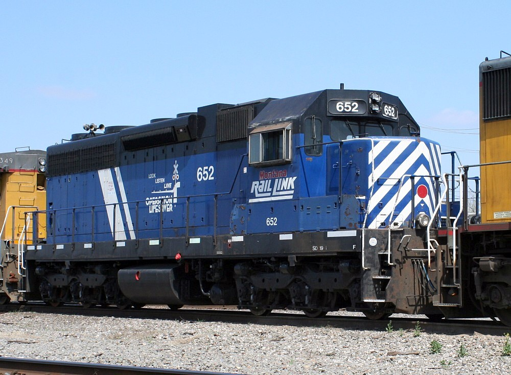 Montana Rail Link #652, EMD SD19-1(rebuilt SD9) [1]